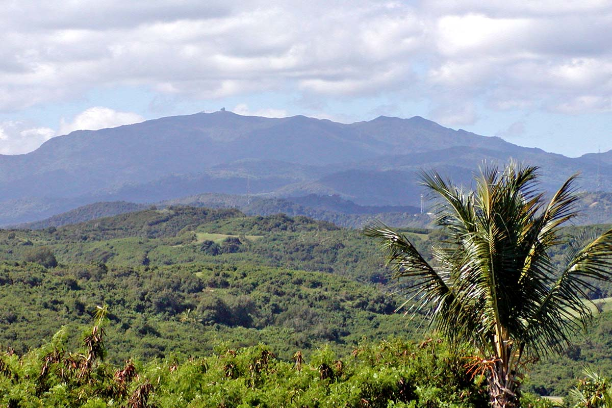 Photo of El Yunque, Puerto Rico